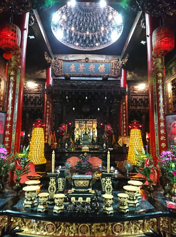 青龍宮內殿